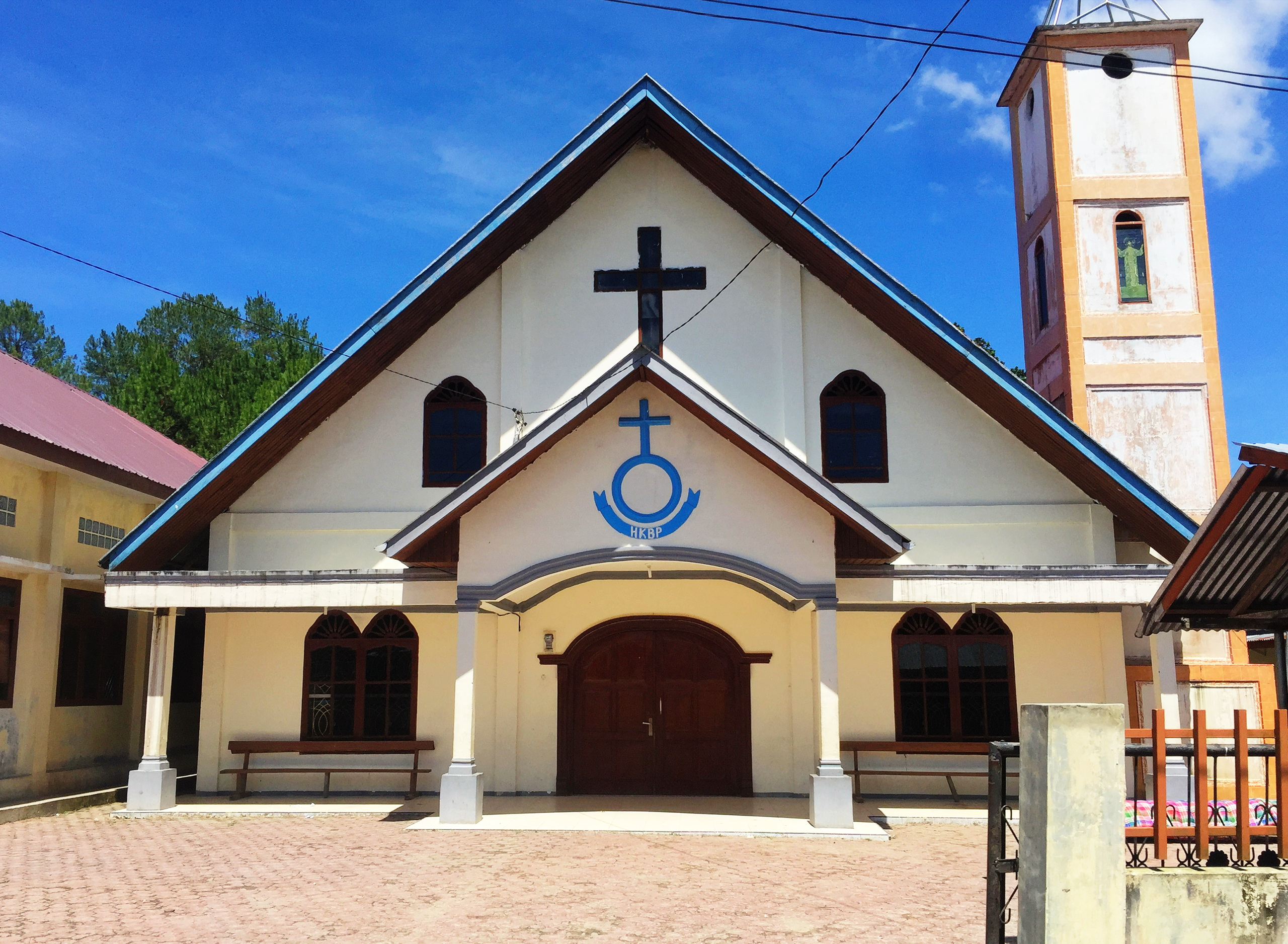 HKBP Tonga Tonga, Church in Parsibarungan, Pangaribuan, North Tapanuli